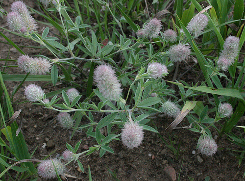 A full bodied view of Hare's-foot clover (Trifolium arvense).